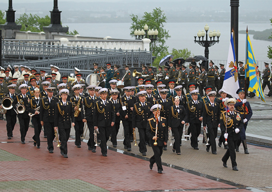 Военные музыканты ВВО начали подготовку к Международному военно-музыкальному фестивалю «Амурские волны»